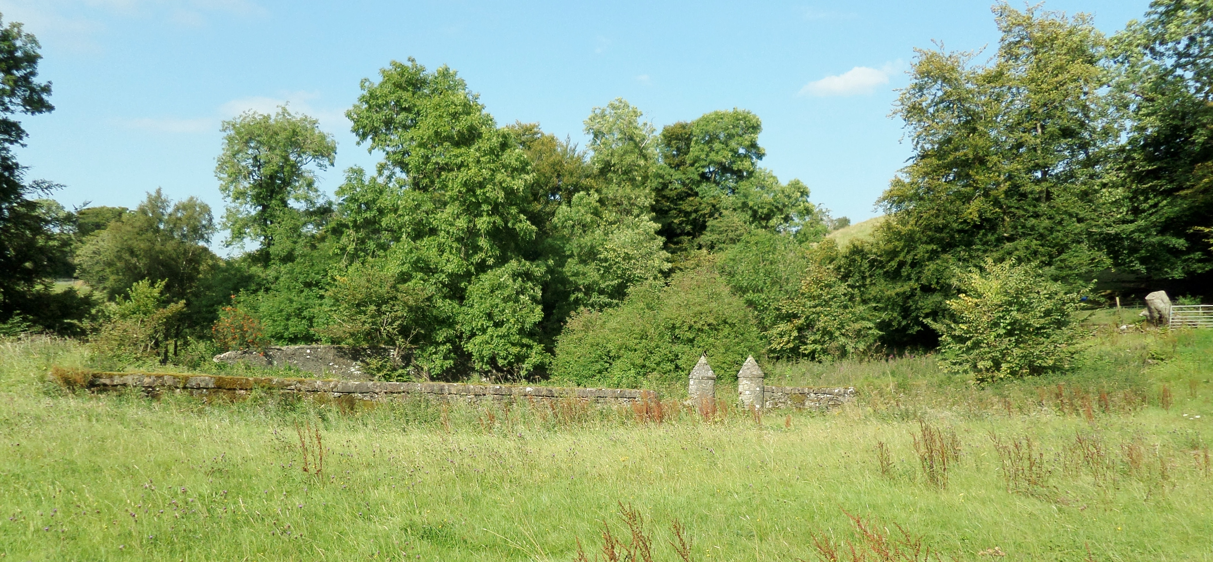 The Laigh Borland Walled Garden entrance, Dunlop, Ayrshire, Scotland